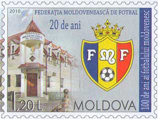 A Moldova 1,20 L stamp commemorating the Centenary of Moldavian Football.